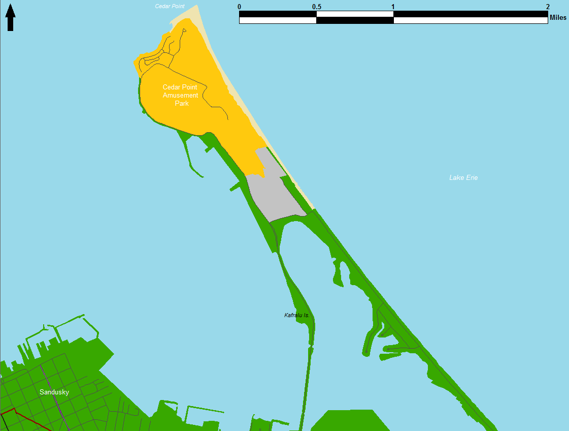 Map showing the locations of Kafralu Island and Cedar Point.